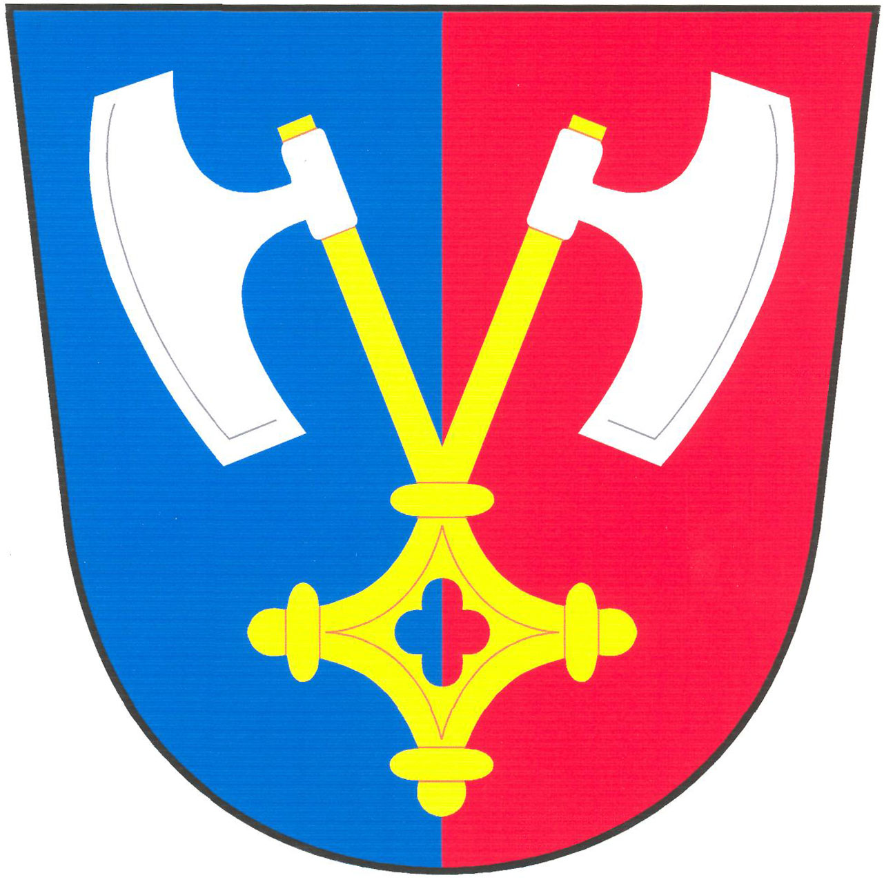 Municipal coat of arms of Říčany village, Brno-Country District, Czech Republic.